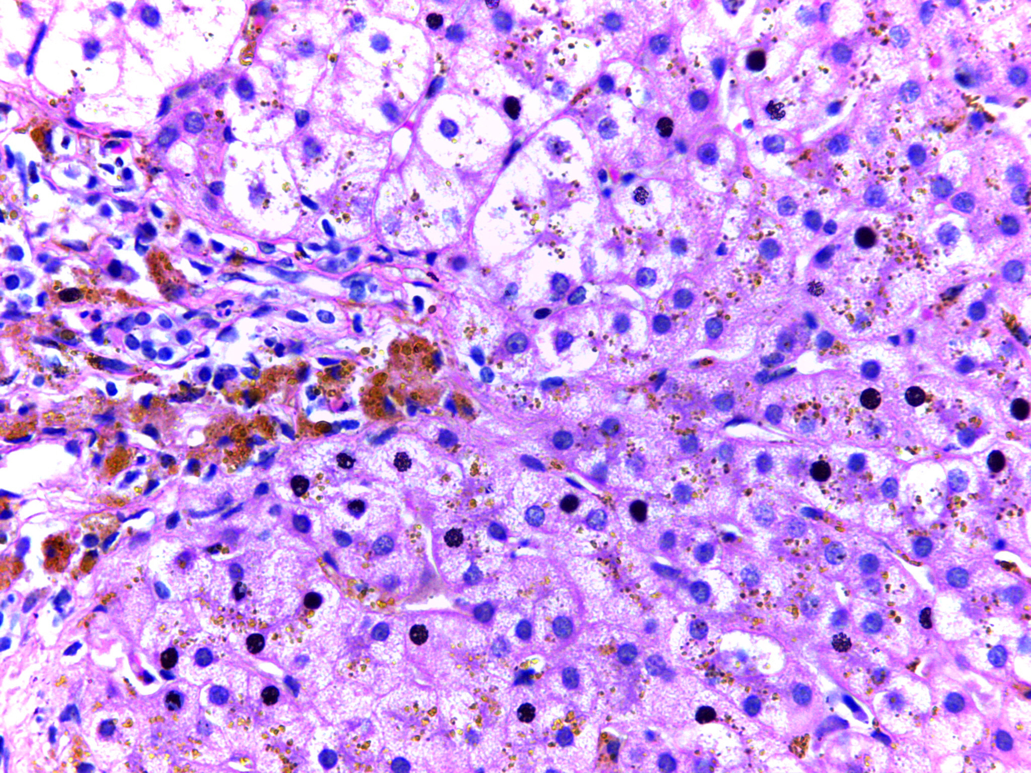 Micrograph of hemochromatosis liver showing hepatocytes with coarse golden yellow granules of hemosiderin within the cytoplasm. These granules stain with Prussian blue stain.